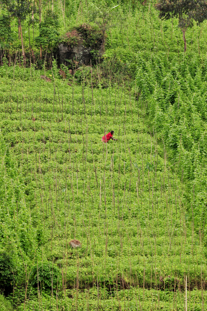 Climbing beans growing in the province of North Kivu, Democratic Republic of Congo.